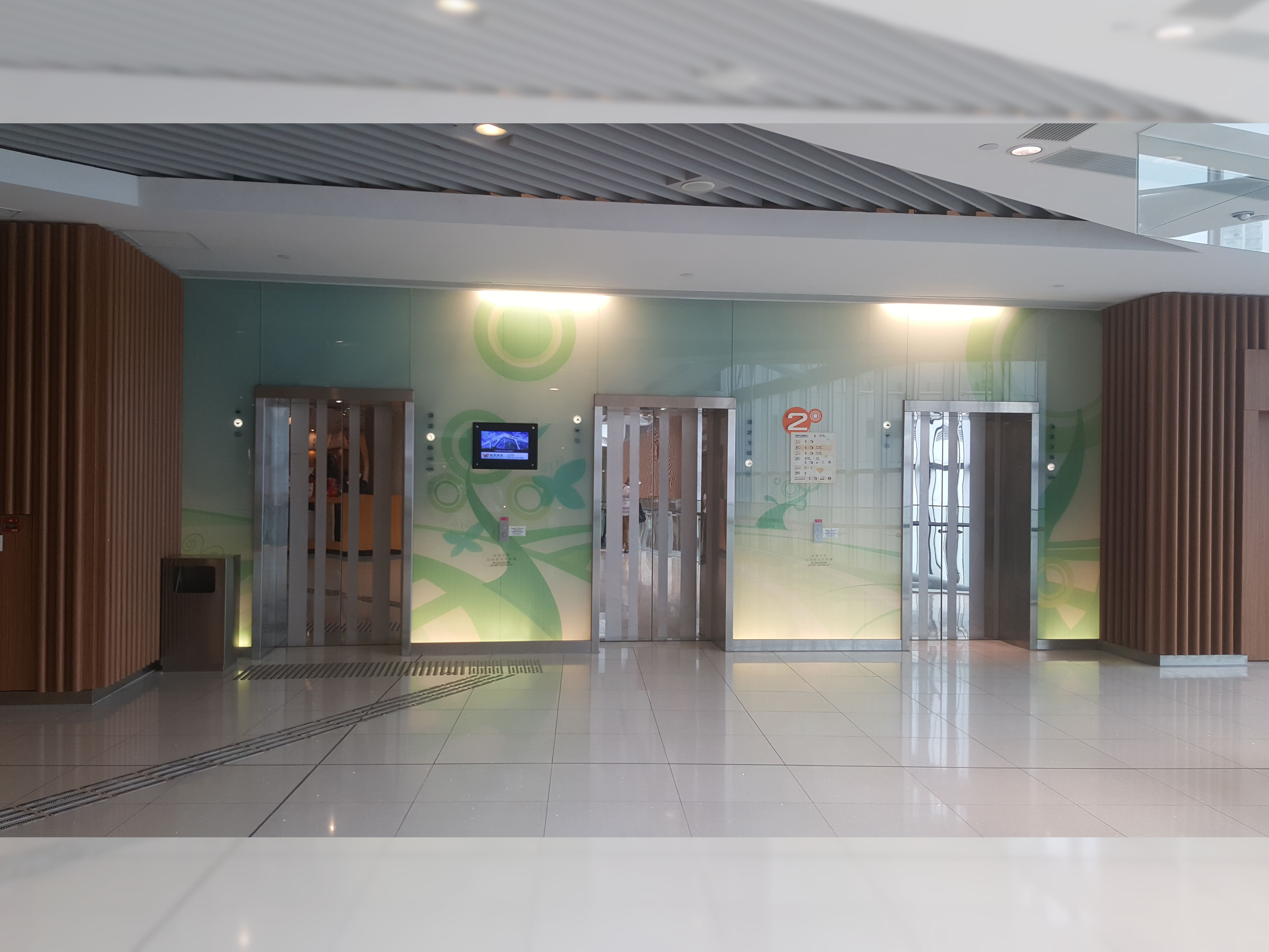 Domain mall Level 2 Lift lobby